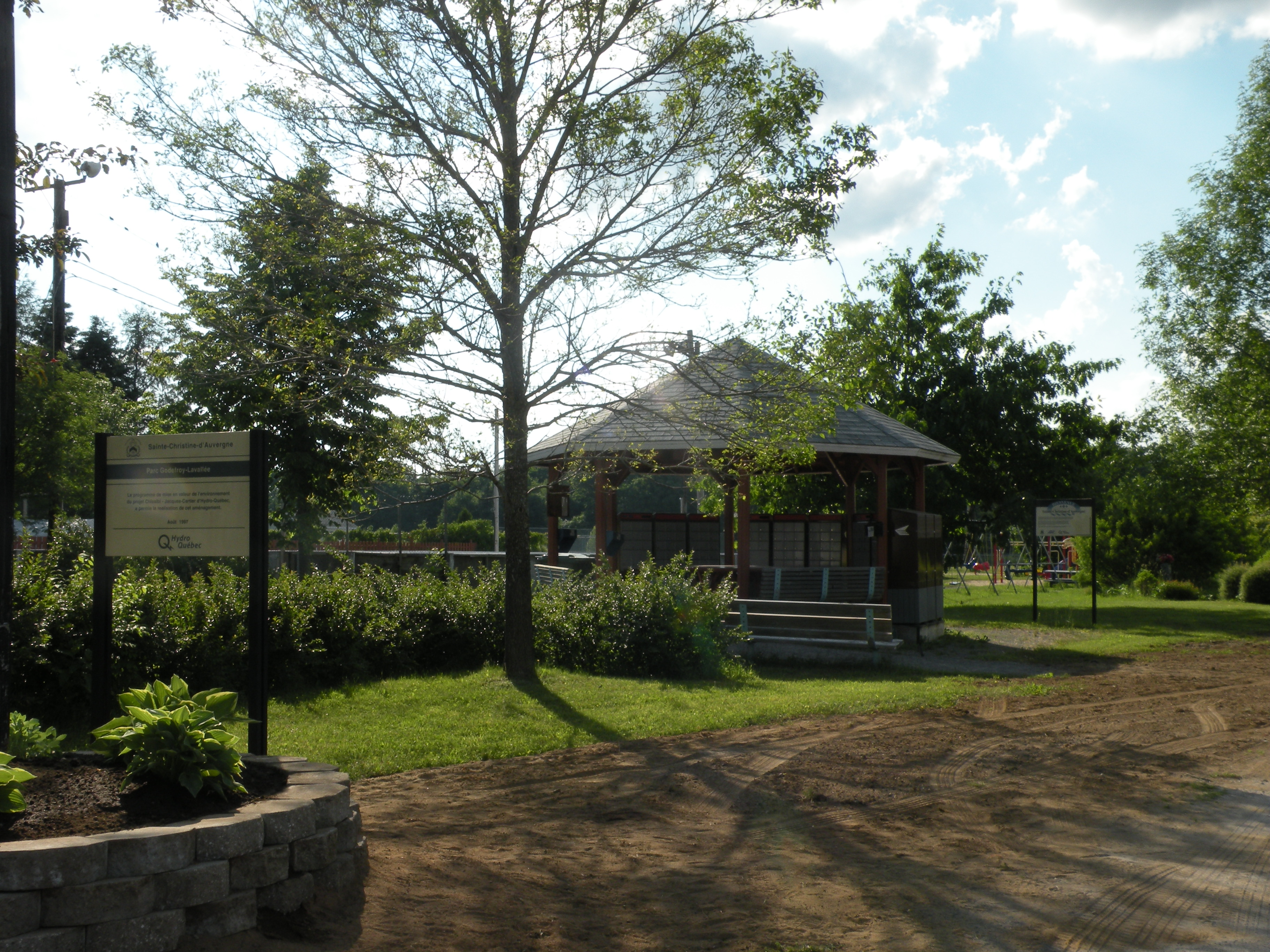 The godefroy-Lavallée park in Sainte-Crhistine-d'Auvergne.